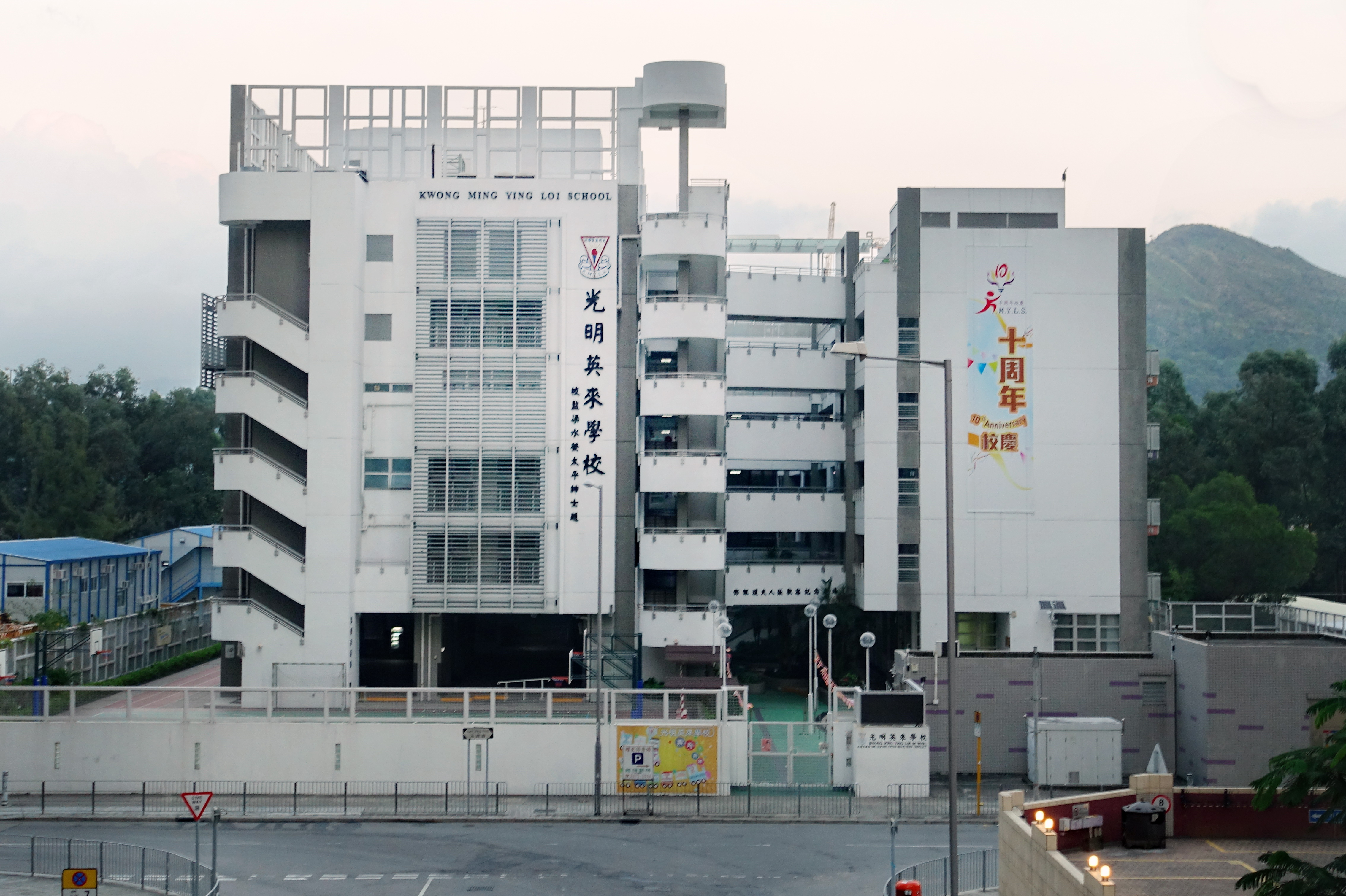 Kwong Ming Ying Loi School, Yuen Long, Hong Kong.